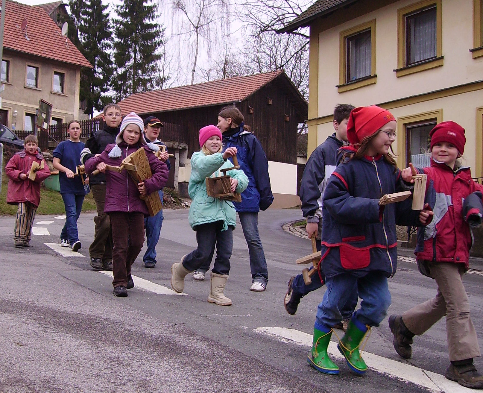 "Ratschen" in the Franconian Switzerland, Germany